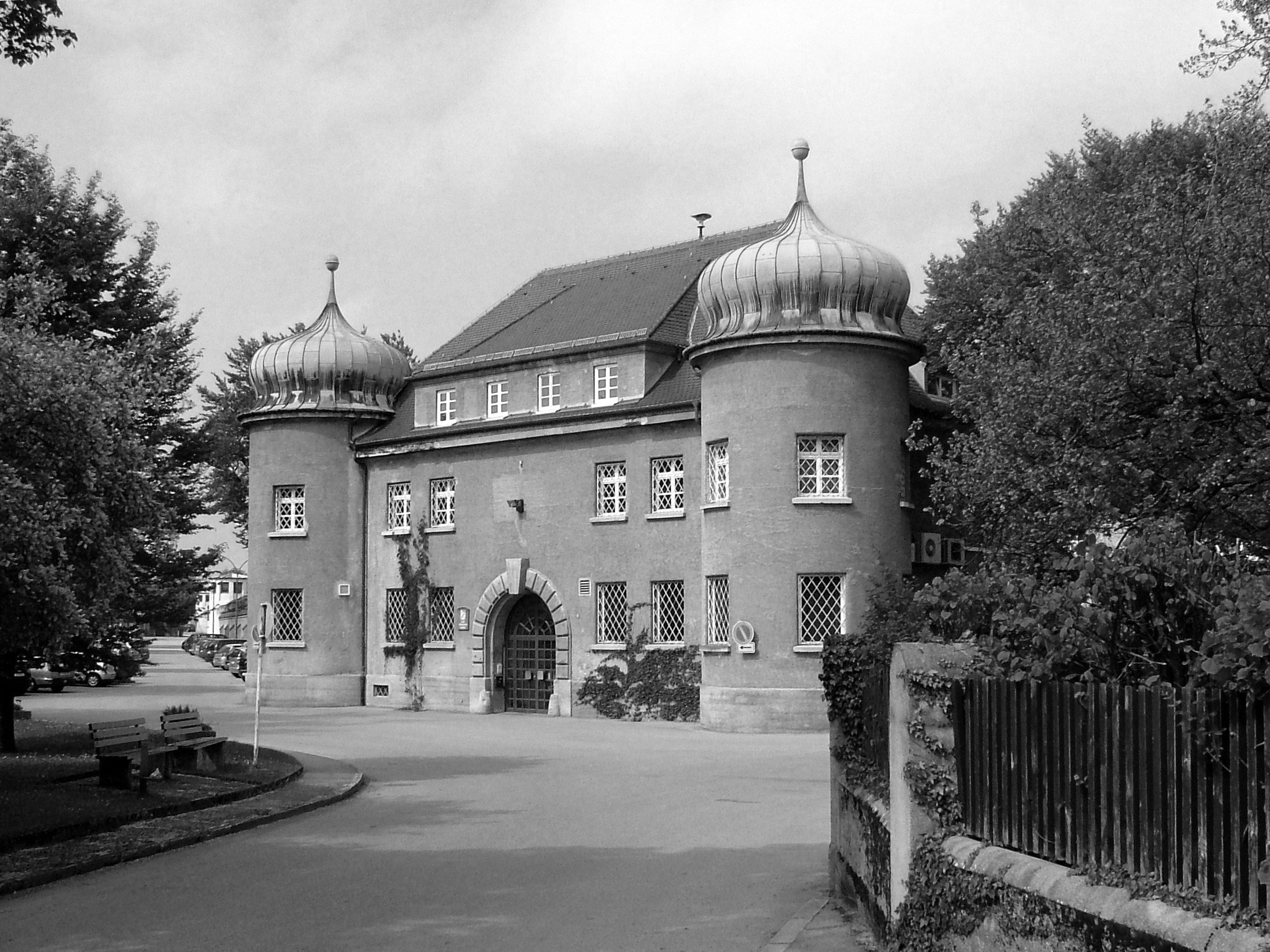 Landsberg Prison in Landsberg am Lech, Bavaria.